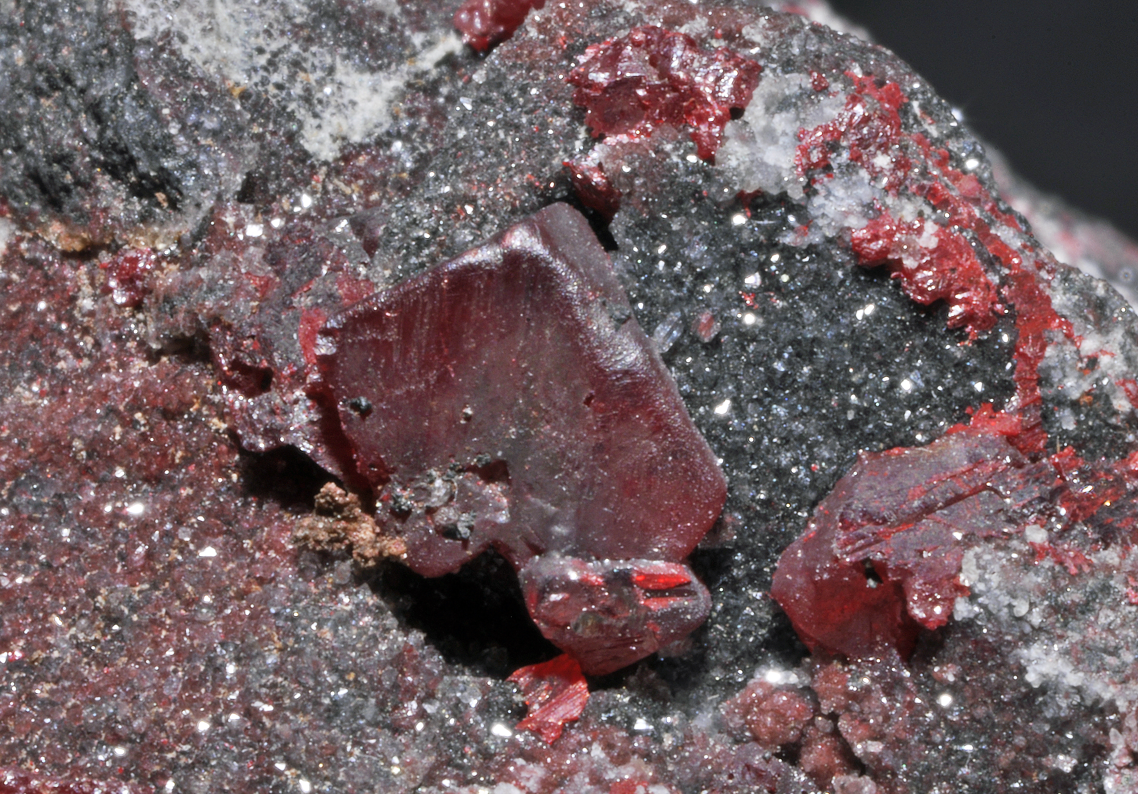 crystals of cinnabar, globules, droplets of native mercury : Almadén Mine, Castile-La Mancha, Ciudad Real, Almadén District, Almadén, Spain